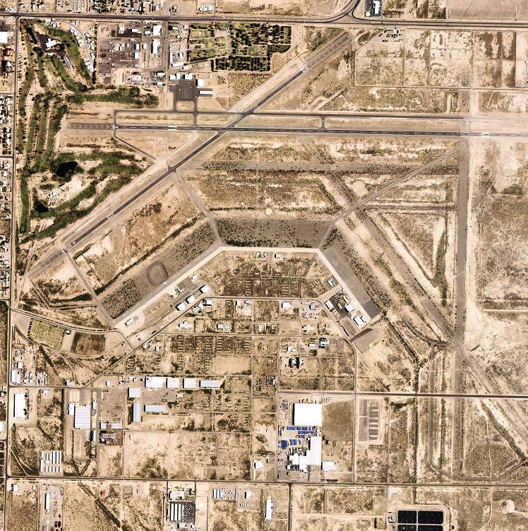 USGS digital orthophoto of Deming Municipal Airport in New Mexico